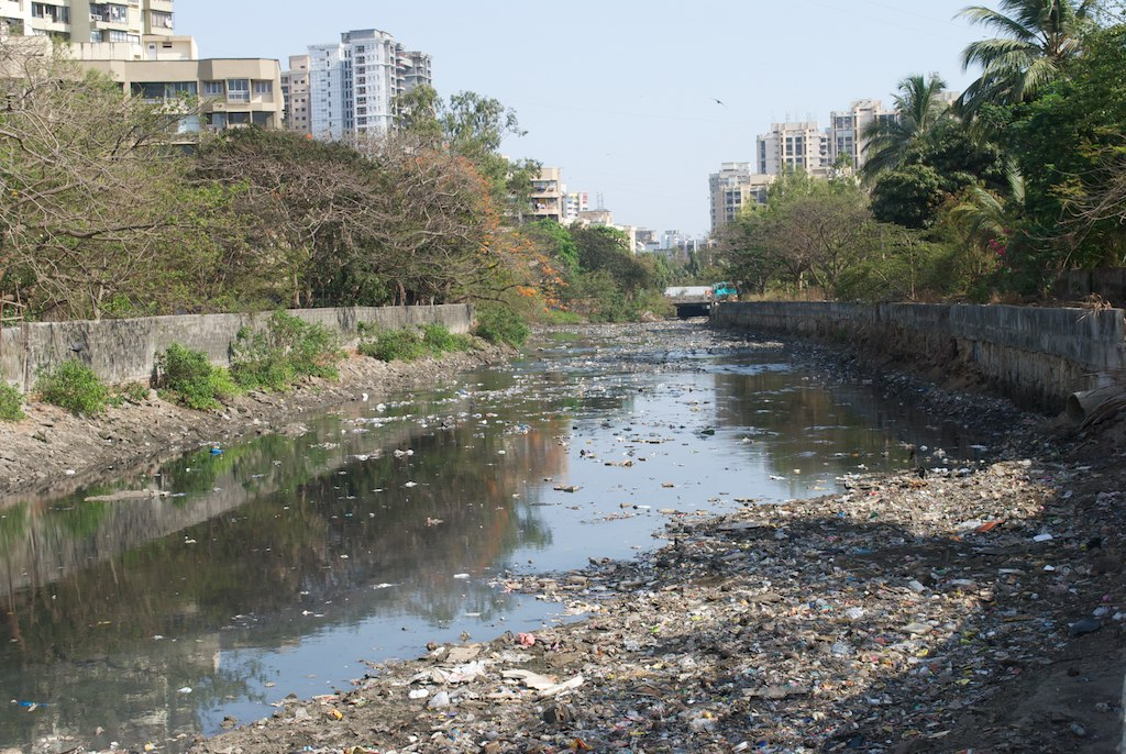 Mumbai's creeks are clogged with untreated sewage, garbage and debris from construction. In a recent study conducted by TERI ( The Energy and Resource Institute), Mumbai has been ranked most vulnerable among India's coastal ecosystems.